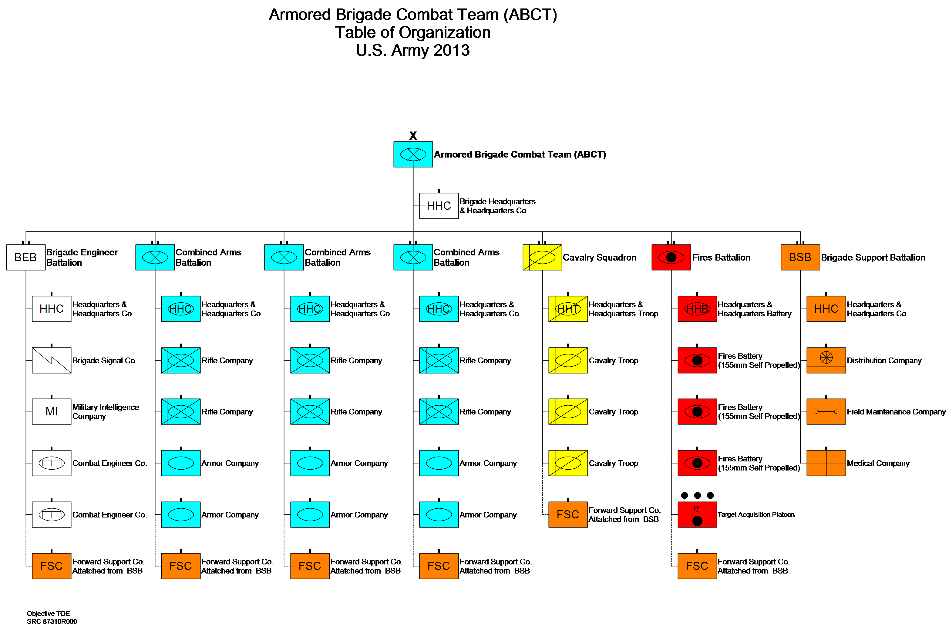 Armored Brigade Combat Team Table of Organization. Reflects changes in U.S. Army MTOE made in 2009